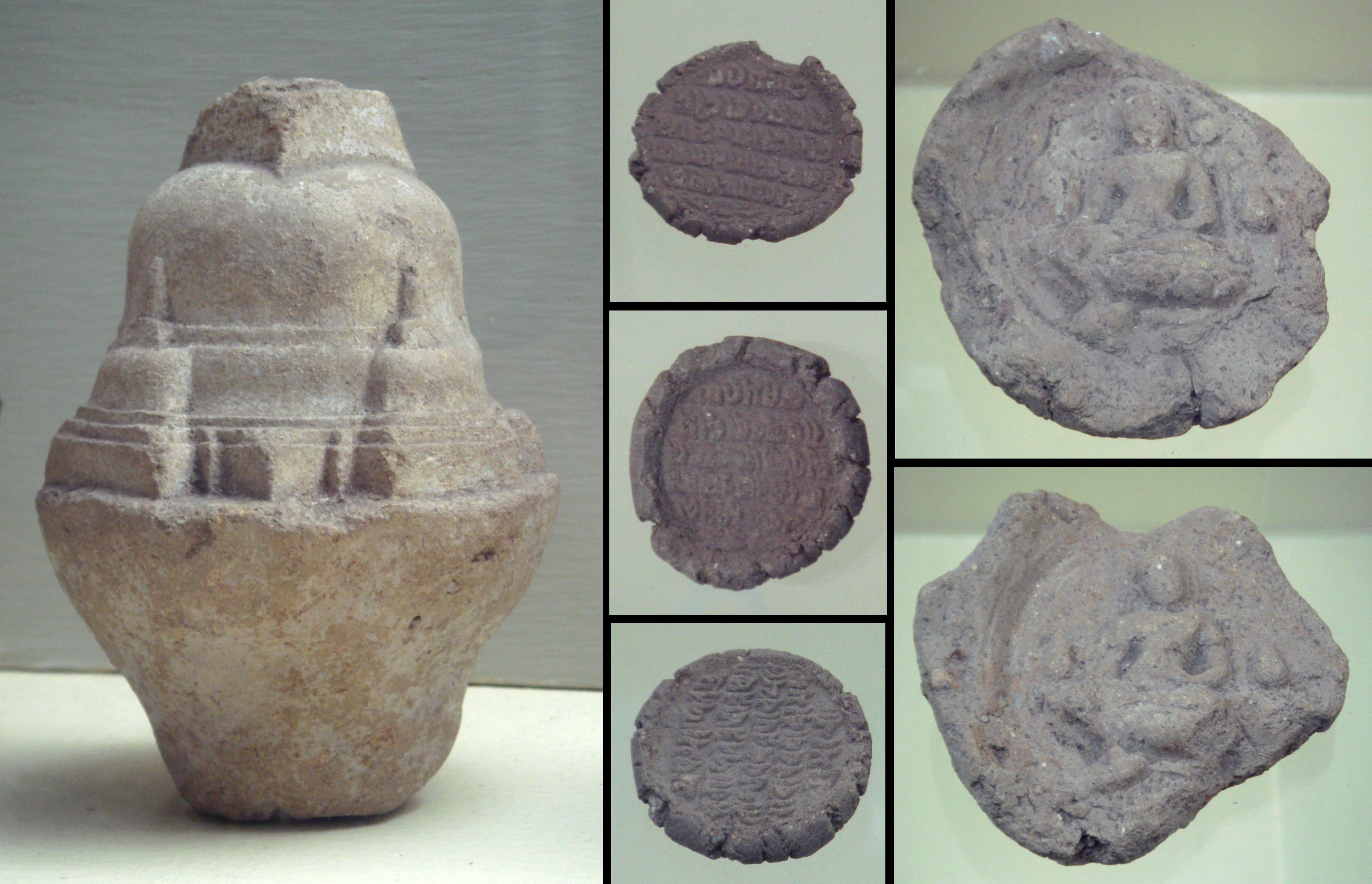 Stupika_and_artifacts Bali 8th century